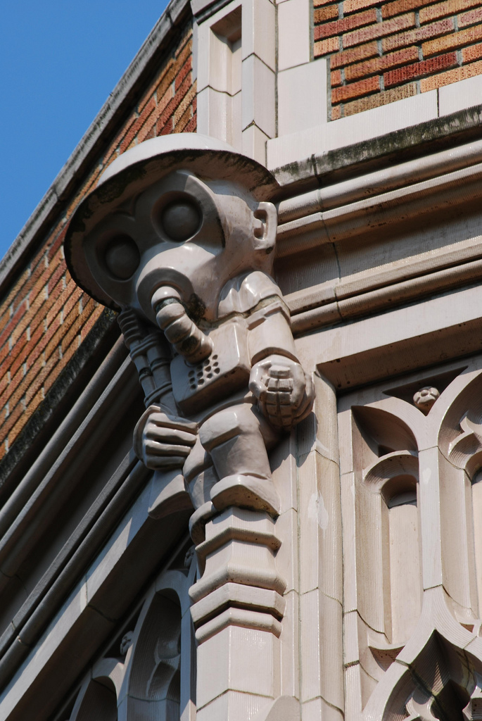 Gargoyle by Dudley Pratt on UW's Smith Hall